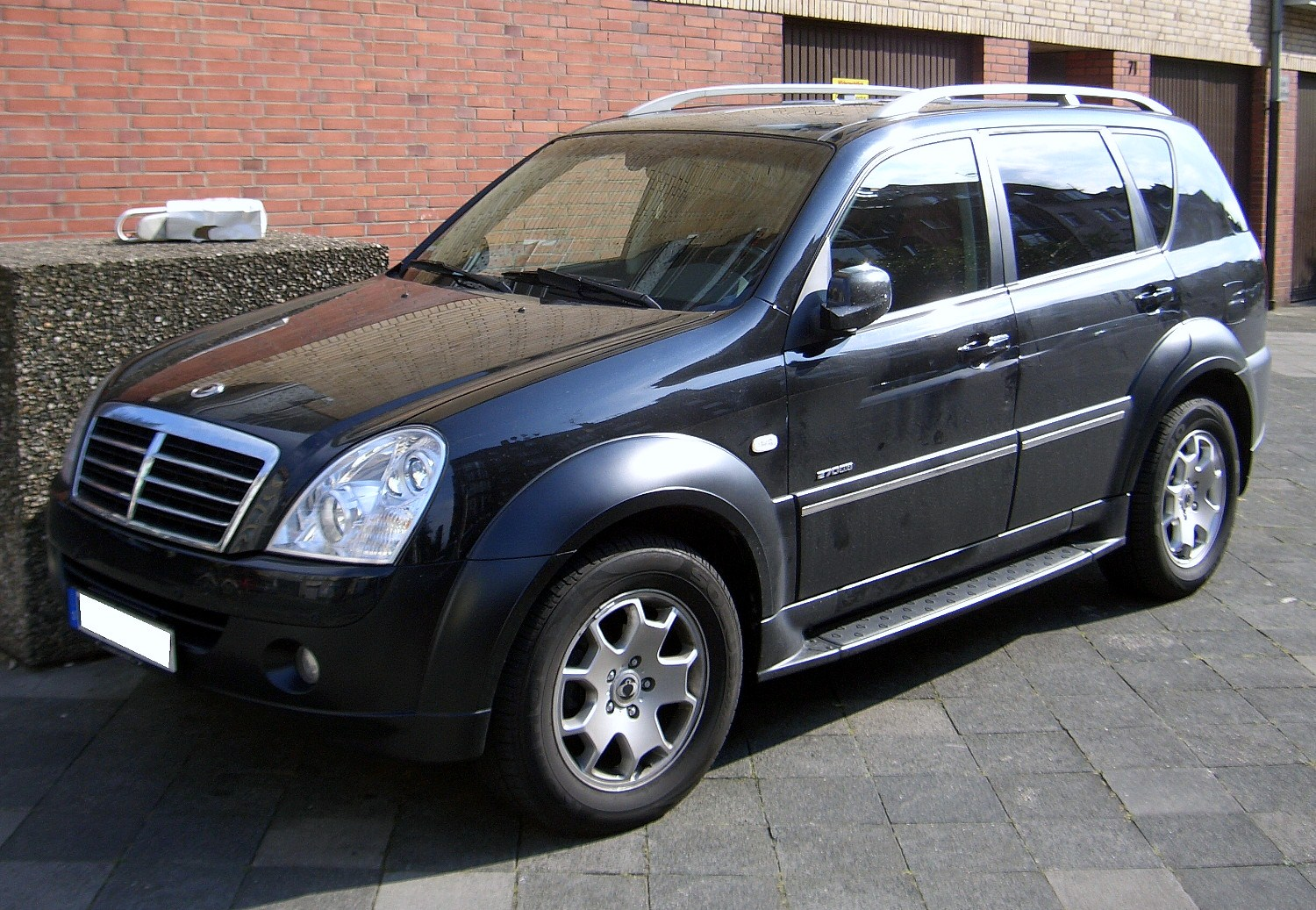 Ssang Yong Rexton RX 270 XDI, Facelift 2006